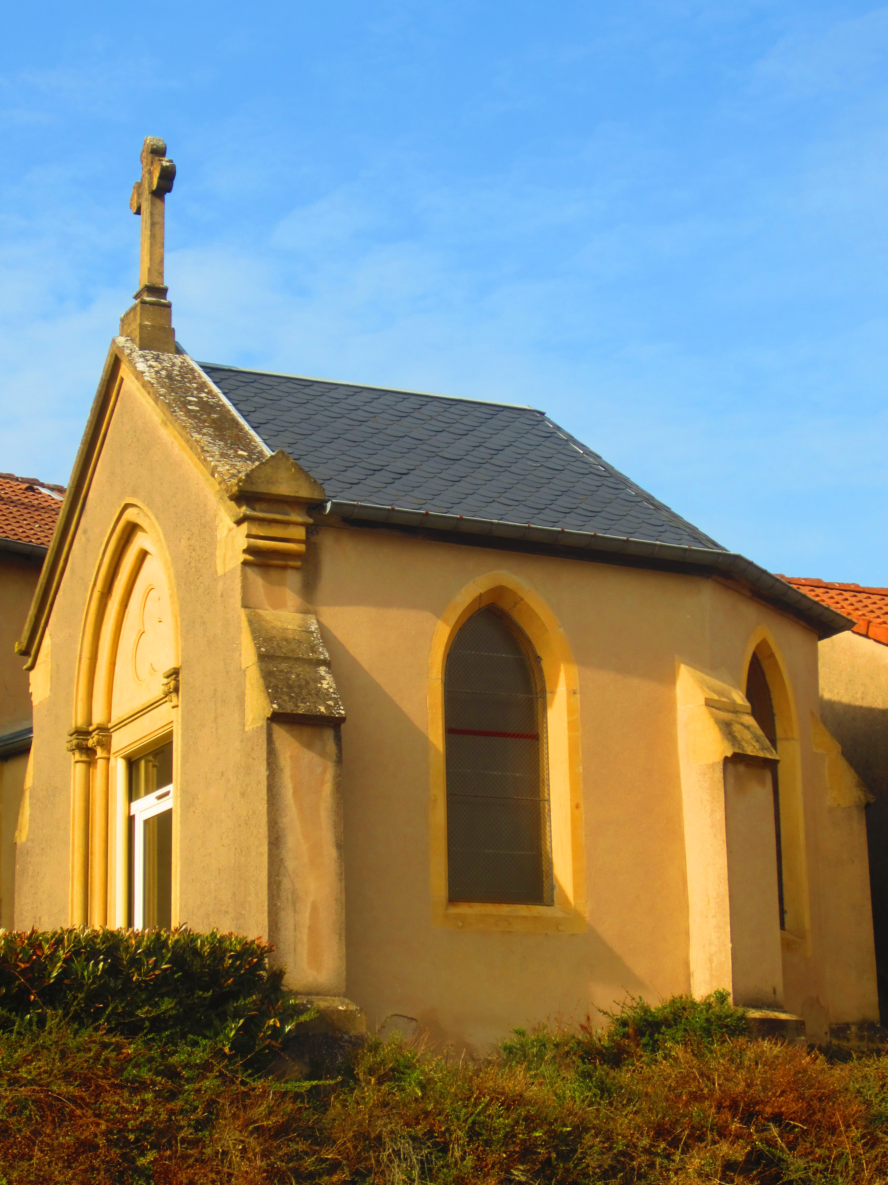 Ars Laquenexy chapel